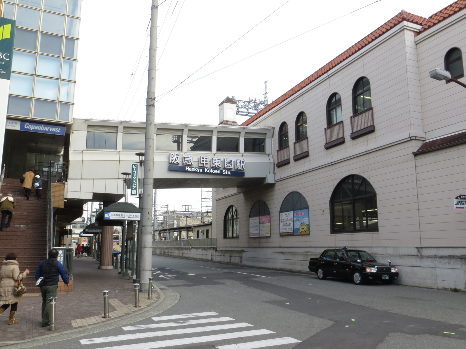 West entrance from Kōtōen Station(HK24).